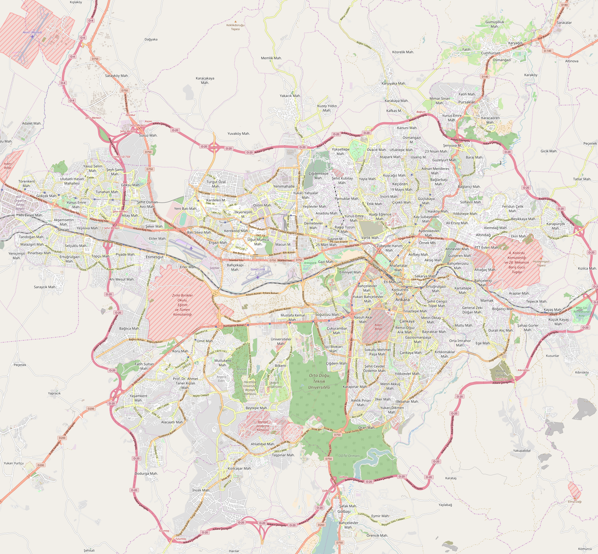 OpenStreetMap - Map of Ankara